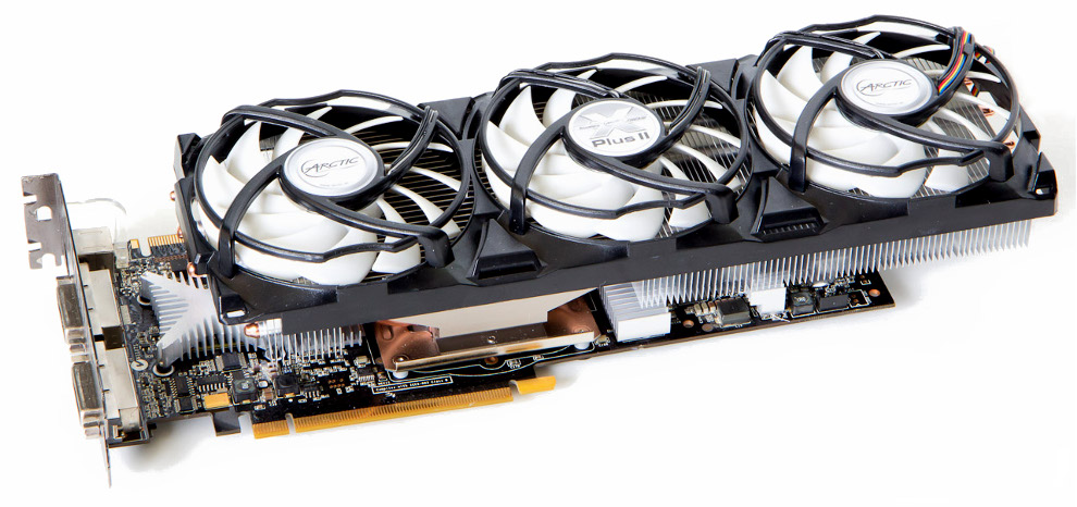 Picture showing a 3-fan computer heatsink fan mounted on a graphics card for efficient heat dissipation of the GPU